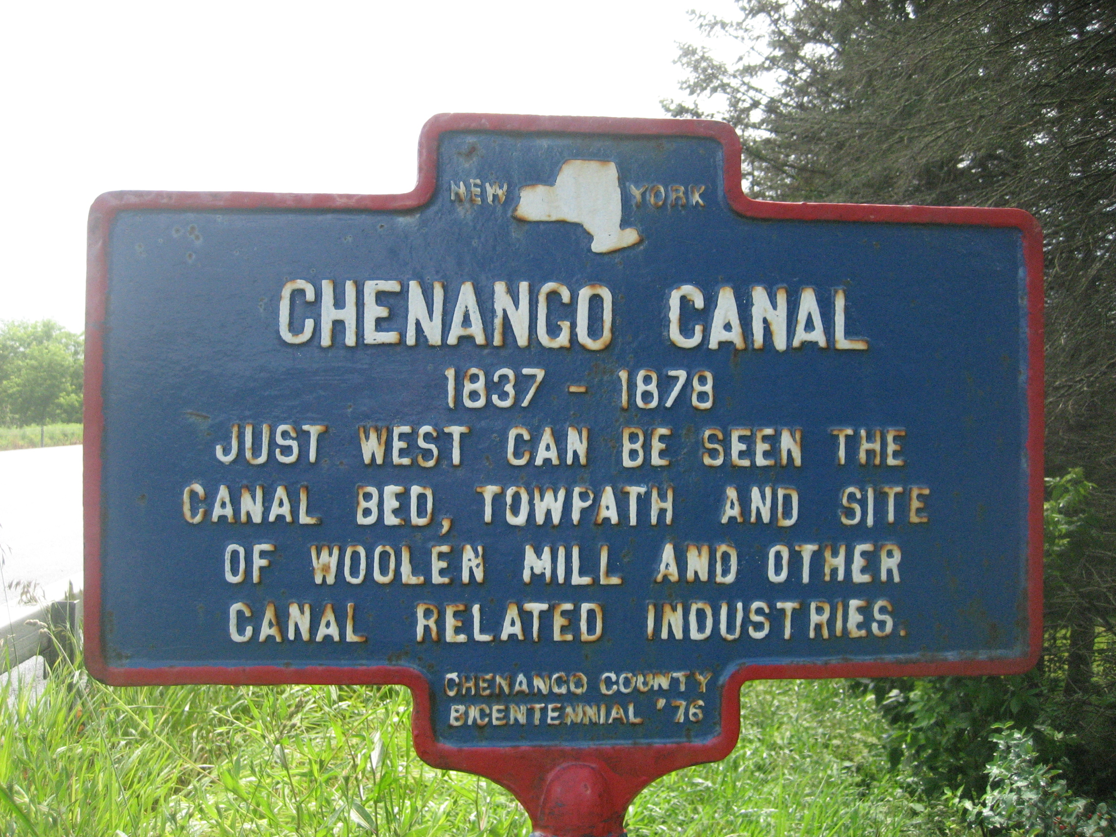 Historic marker #2 of the Chenango Canal. West is the canal bed, towpath and site of a woolen mill, at Sherburne, NY